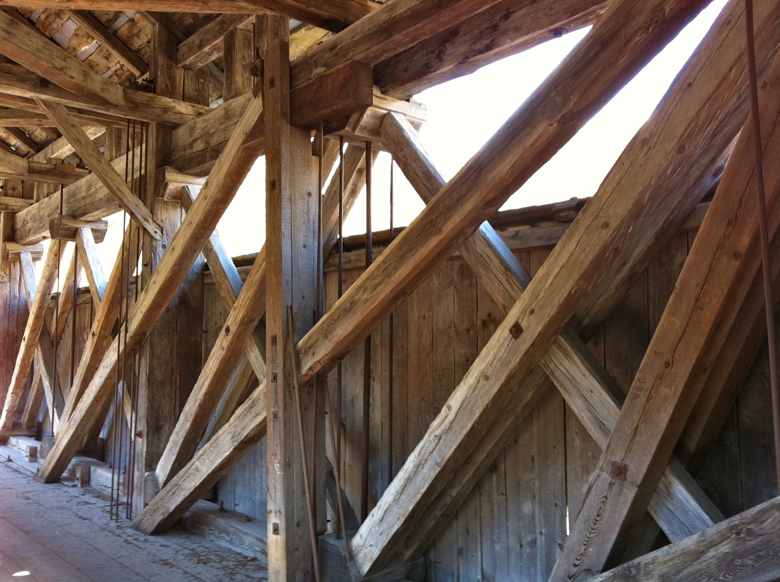 Photos of wooden bridge in Scuol Switzerland.